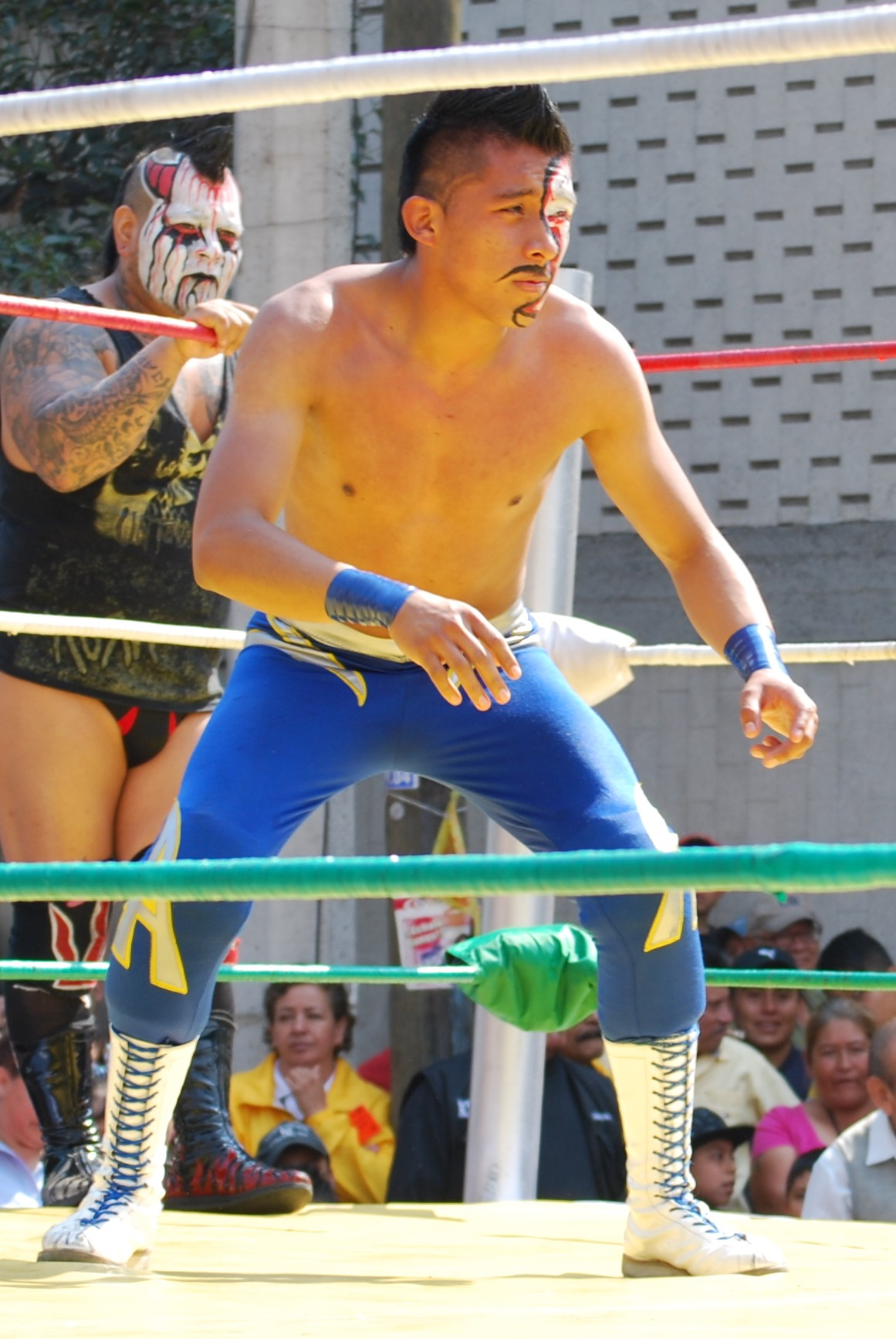 Mercurio during the first match of a CMLL lucha libre event part of Festival Día de Reyes Territorial Obrera Doctores in Mexico City. Cropped from original photo.